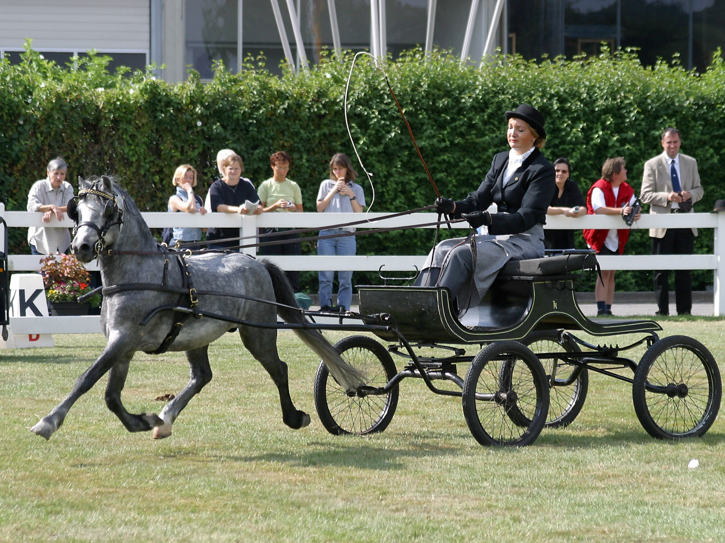 A Welsh Mountain Pony in a private driving class